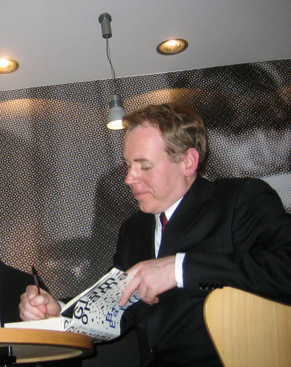 Bret Easton Ellis. Autograf session in Milan